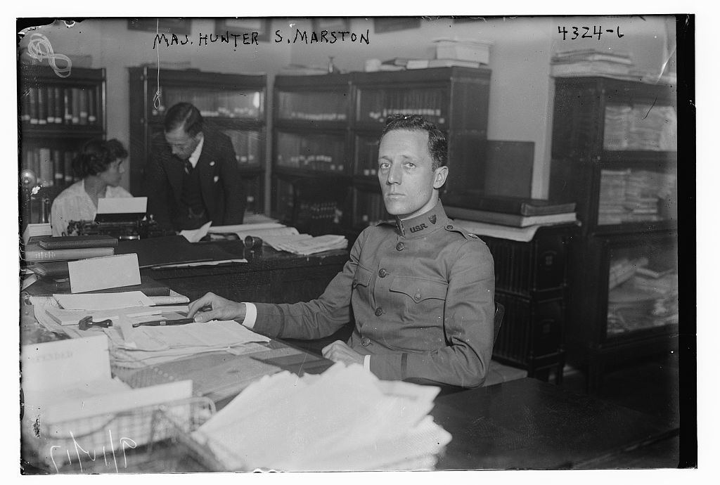 Bain News Service,, publisher. Maj. Hunter S. Marston [between ca. 1915 and ca. 1920] 1 negative : glass ; 5 x 7 in. or smaller. Notes: Title from unverified data provided by the Bain News Service on the negatives or caption cards. Forms part of: George Grantham Bain Collection (Library of Congress). Format: Glass negatives. Repository: Library of Congress, Prints and Photographs Division, Washington, D.C. 20540 USA, General information about the Bain Collection is available at Higher resolution image is available (Persistent URL): Call Number: LC-B2- 4324-6